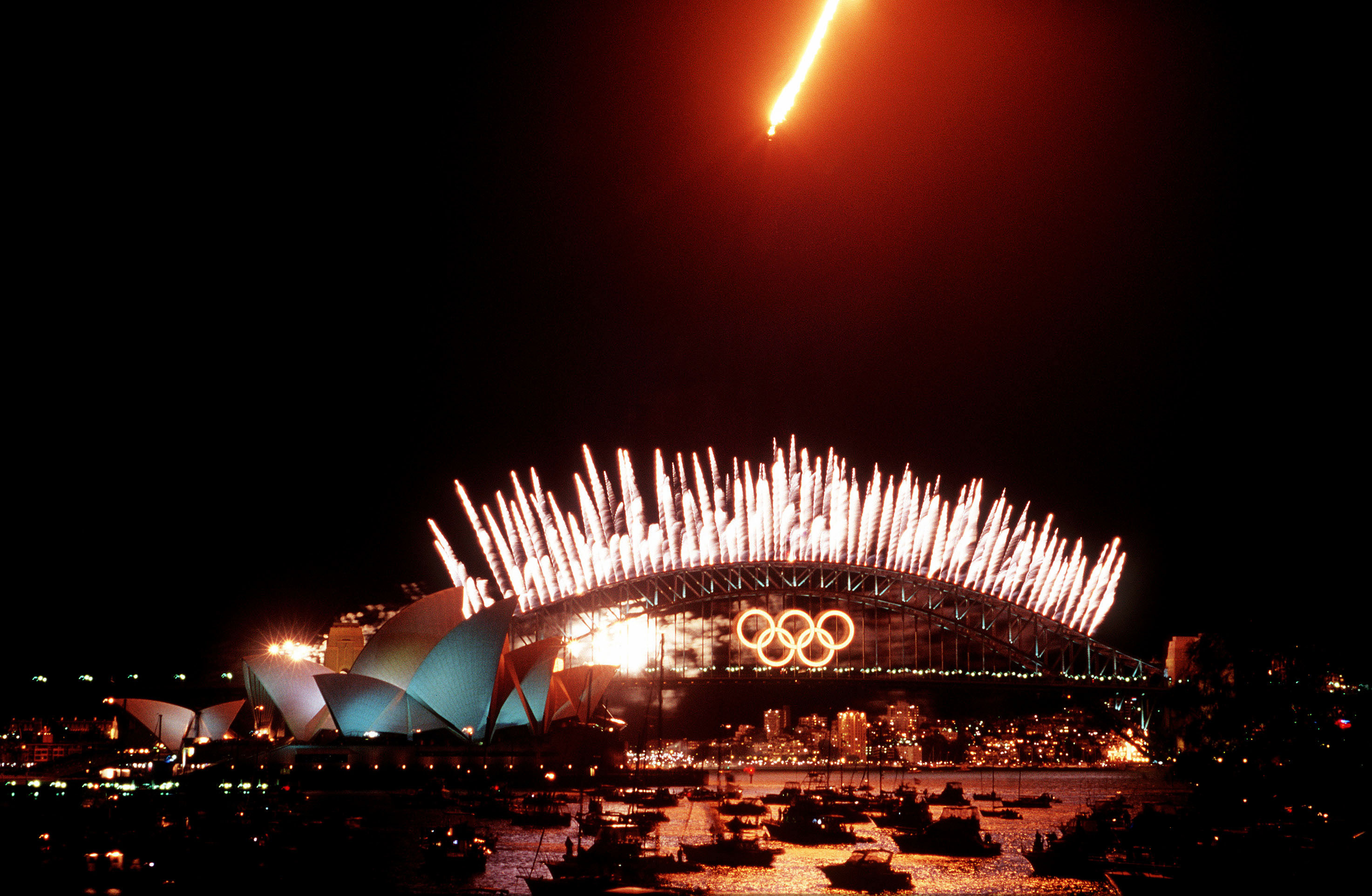 An Royal Australian Air Force F-111 Aardvark aircraft, with its after burner on, clears the Sydney Harbour Bridge during closing ceremonies of the 2000 Olympics games in Sydney, Australia.